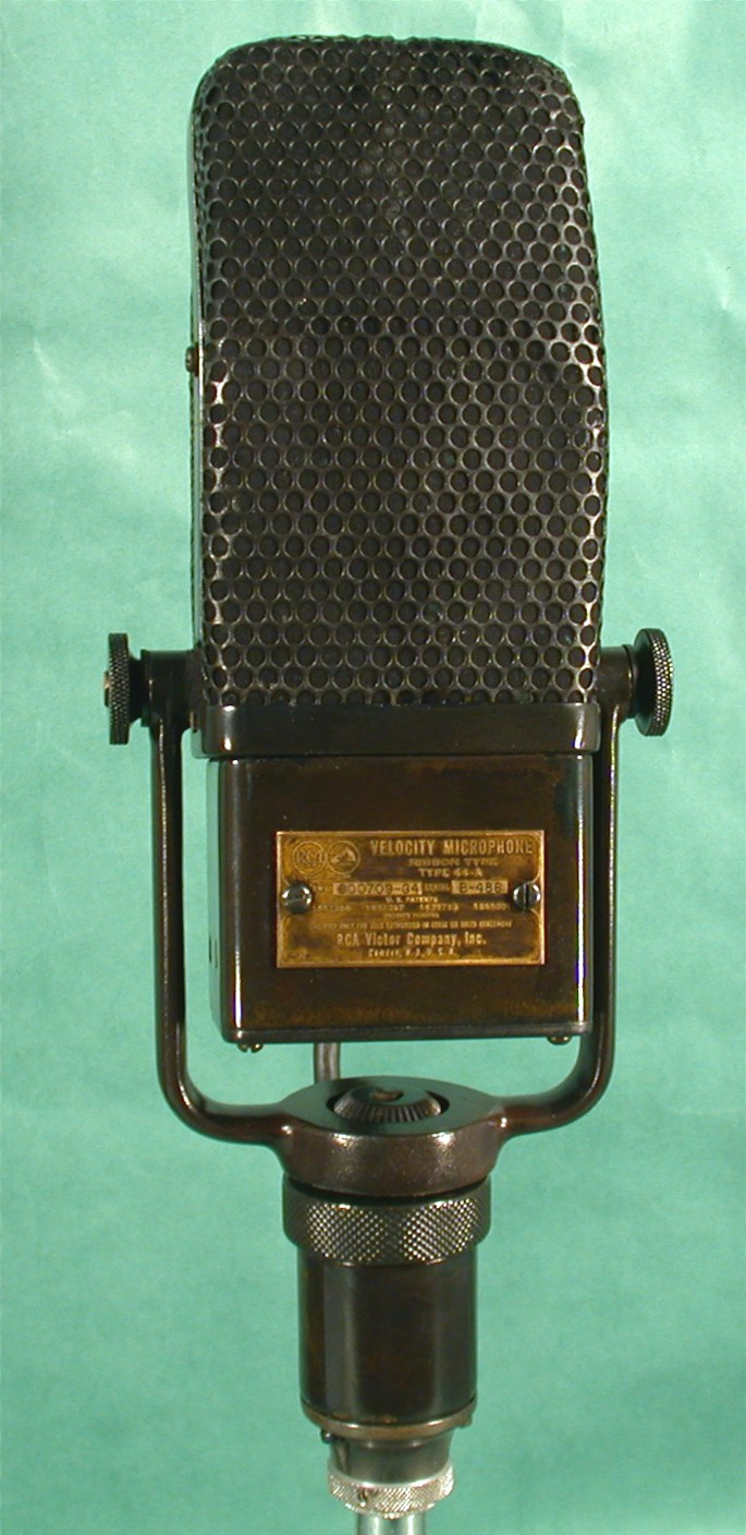 An RCA 44-A ribbon microphone re-bronzed, refinished, and re-ribboned by Ben and Matt at Silvia Classics.